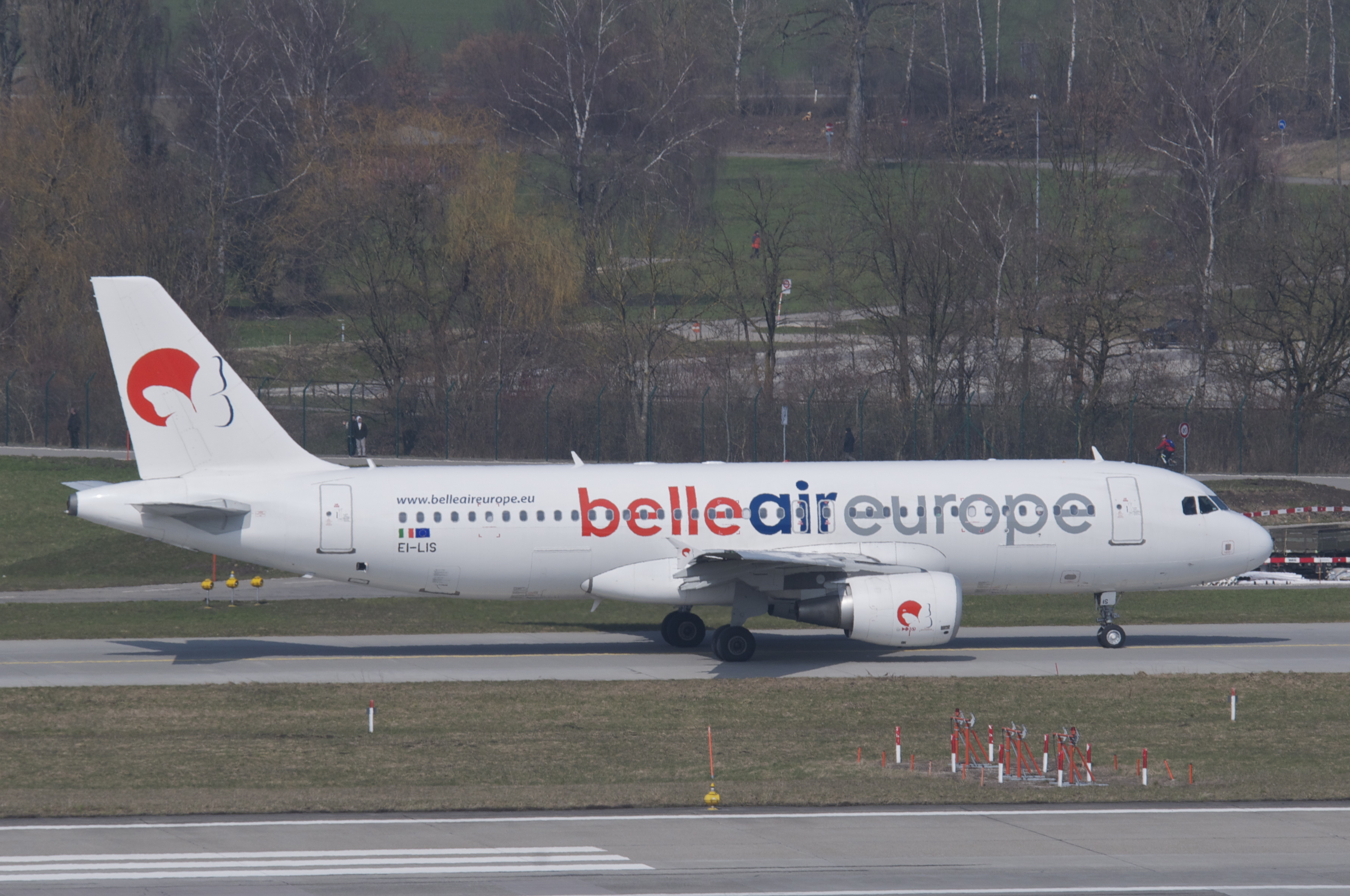 First flight: April 24, 2008...(c/n 3492) 23/05/2008 ArmAvia EK-32005 returned to lessor 09/2011 25/11/2011 Belle Air Europe EI-LIS